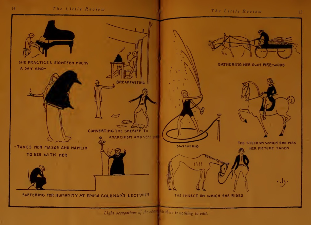 "Light occupations of the editor while there is nothing to edit"